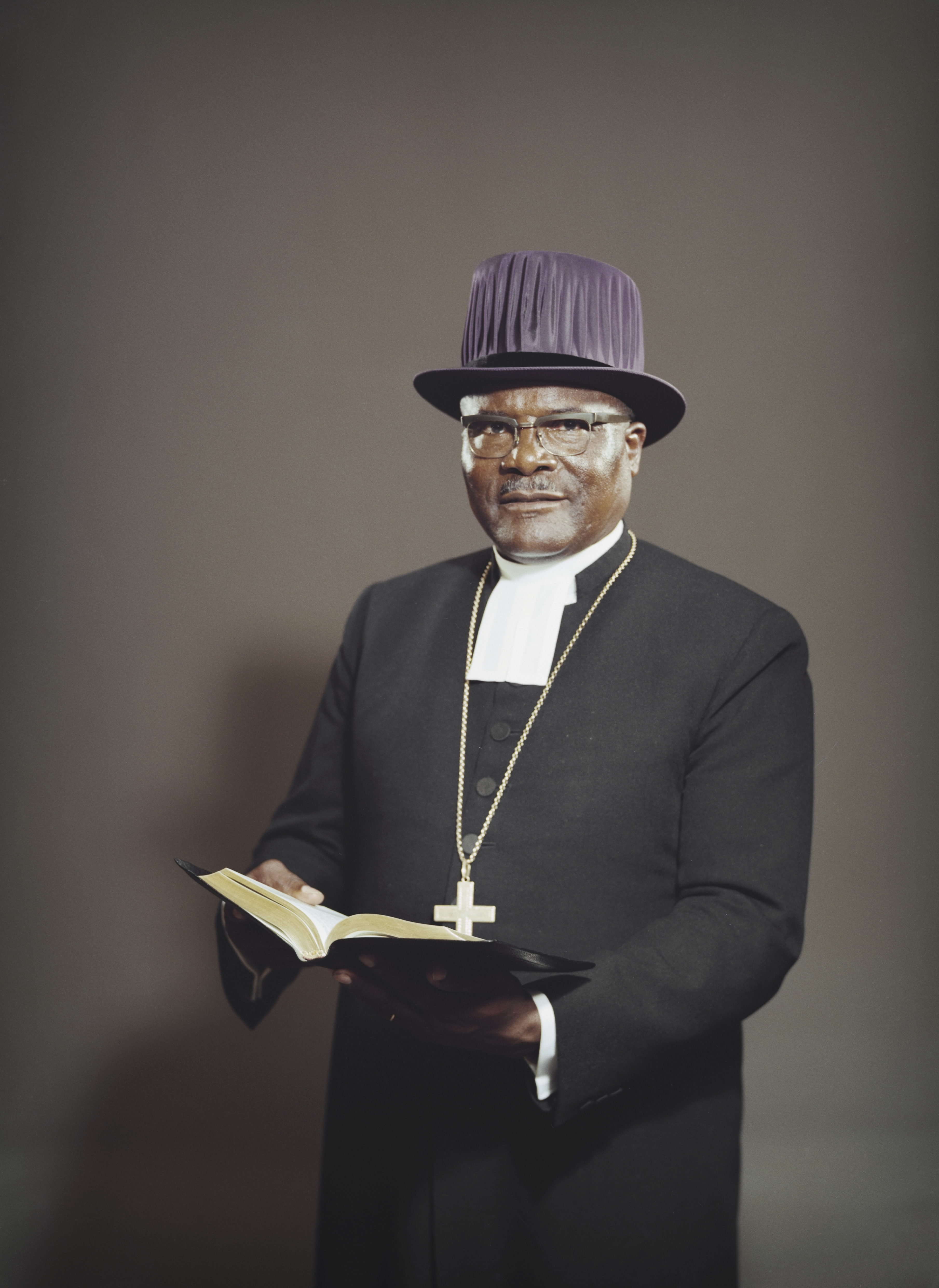 Photograph of the Namibian bishop Leonard Auala (1908–1983). He received Doctor of Theology honoris causa degree at Helsinki University in 1967.